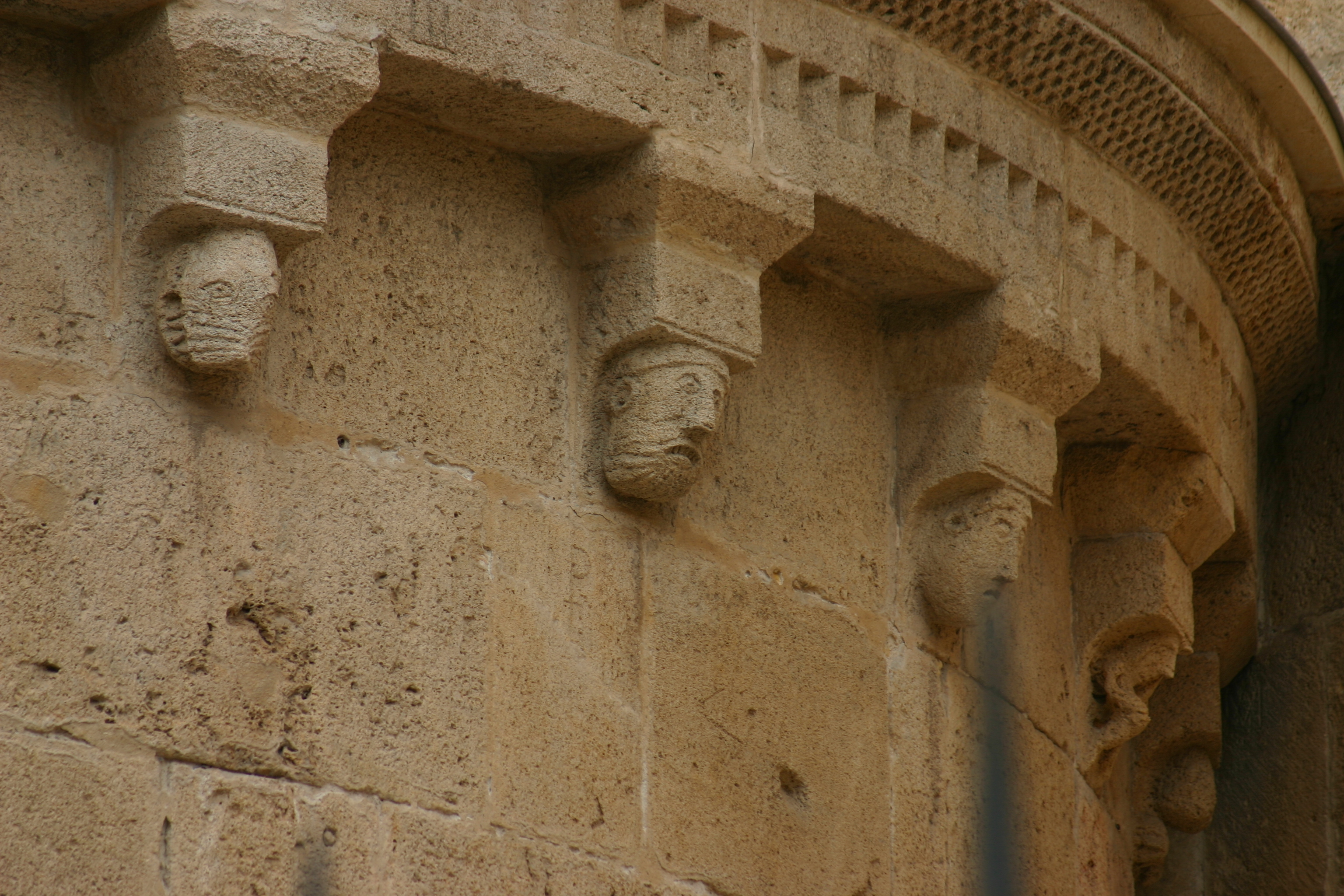 Cathedral of Tarragona, Catalonia (Spain).